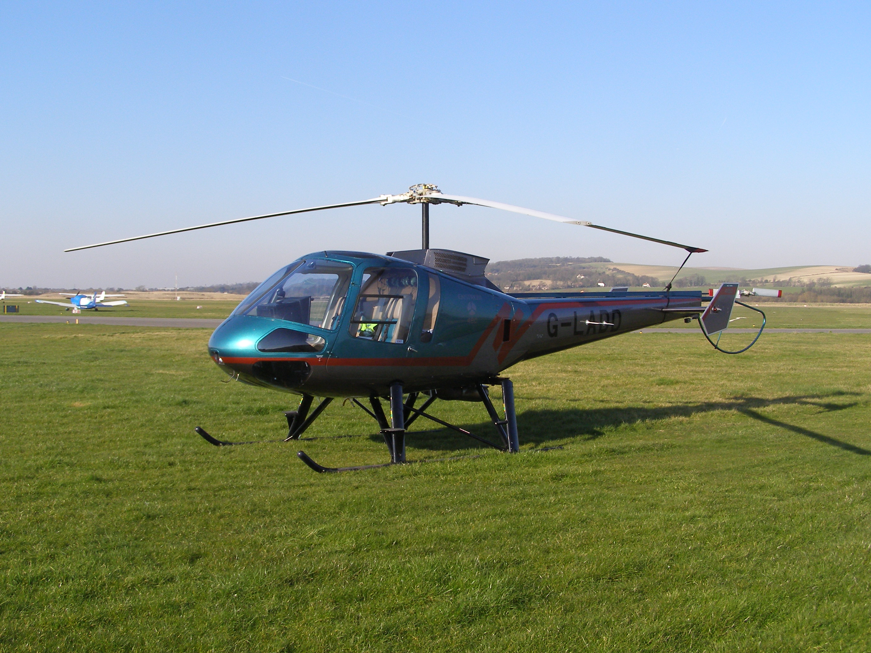 G-LADD an Enstrom 480 at Shoreham Airport, England